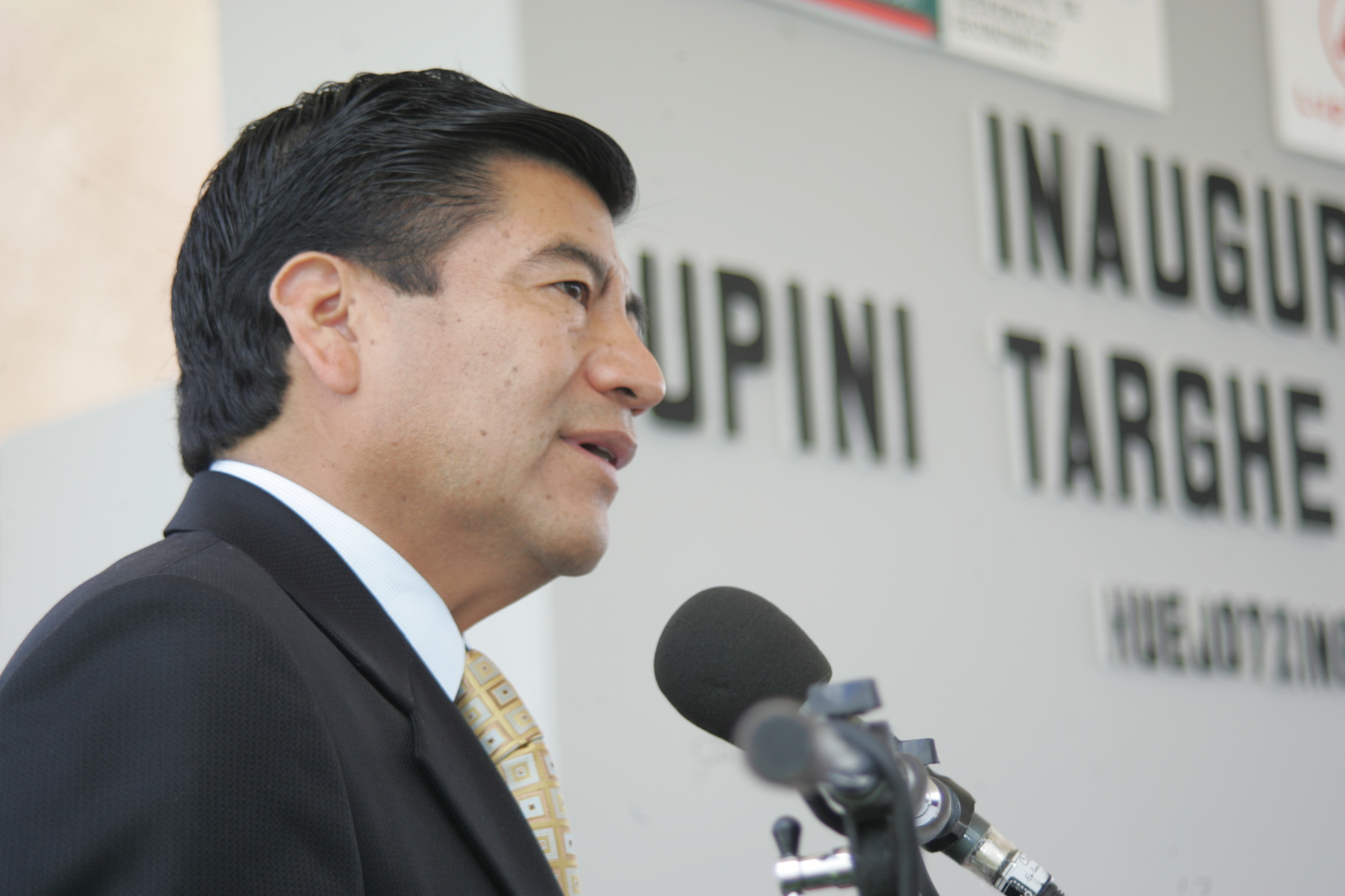 Mario Marin Torres, gobernor of the mexican state of Puebla.